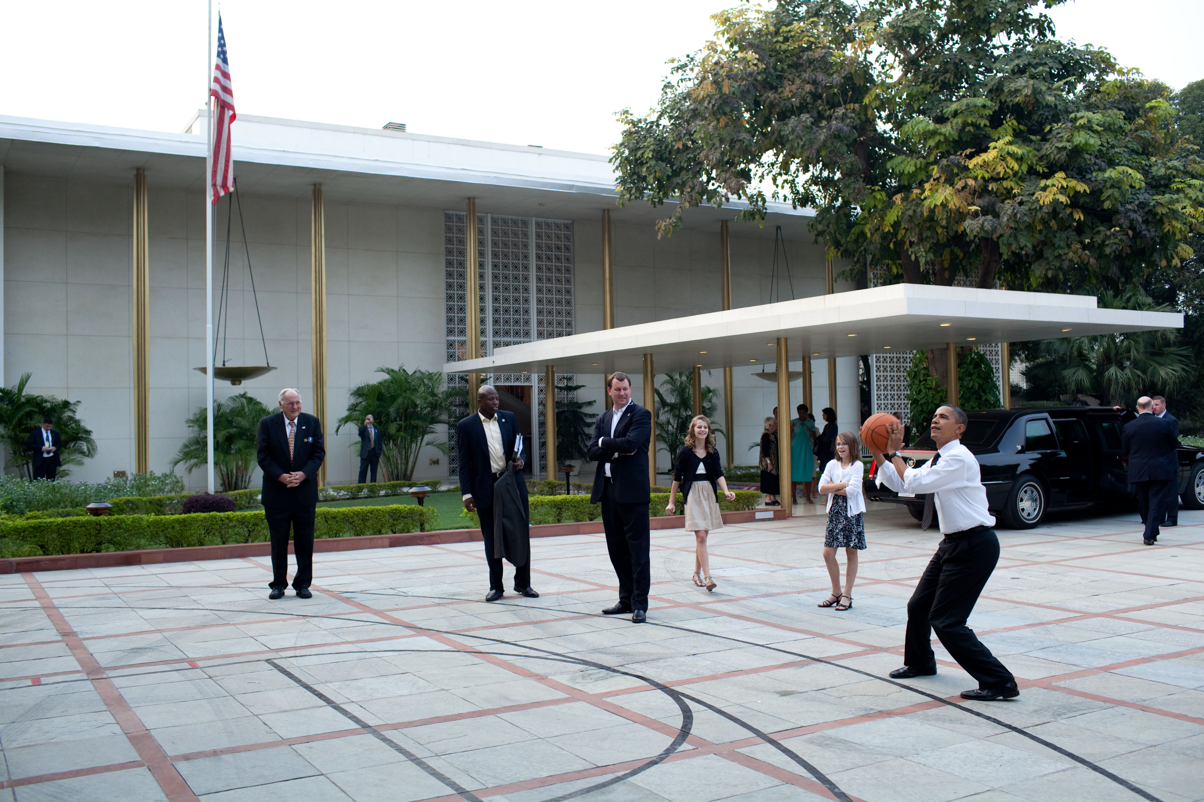 President Barack Obama shoots hoops following an event at the U.S. Ambassador’s residence in New Delhi, India, Nov. 7, 2010. (Official White House Photo by Pete Souza)